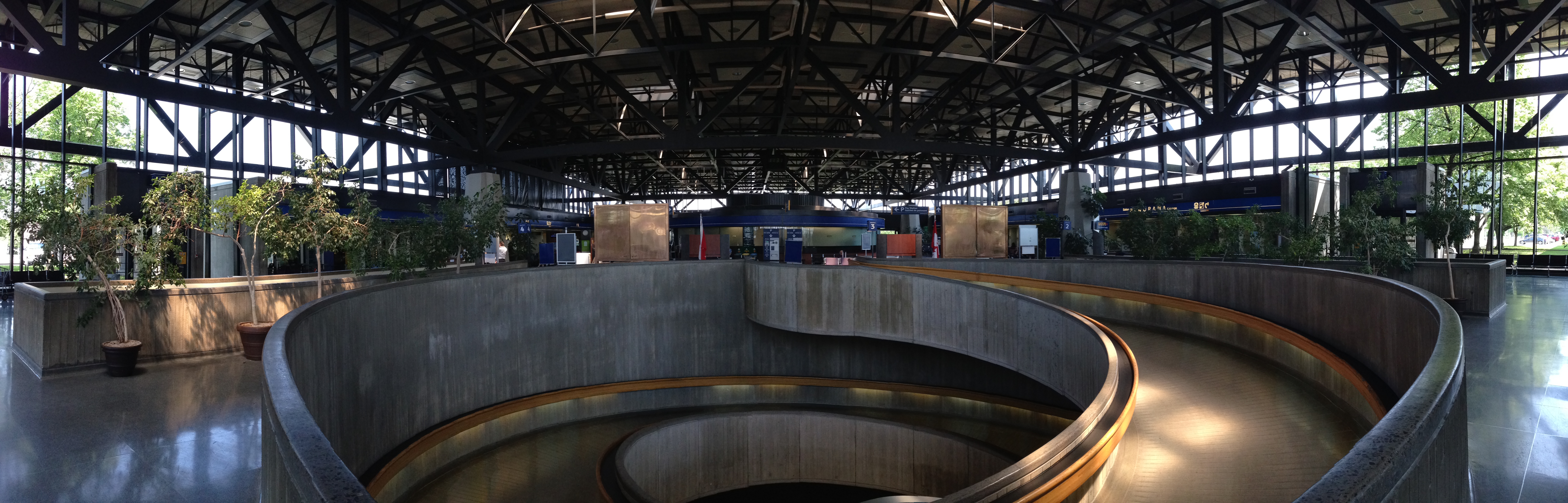 Ottawa Train Station - panorama of the interior